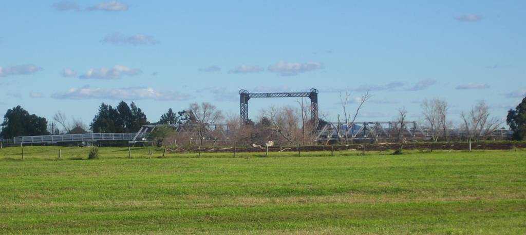 Historic Hinton Bridge was built in 1901 and is one of the last bridges of its kind in existence. Originally built with a lifting span, the span is now locked in position. Viewed from North of Hinton